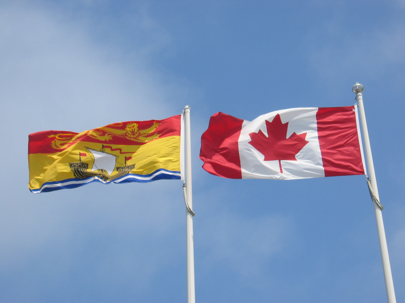 Provincial flag of New Brunswick and national flag of Canada, taken at Westfield, New Brunswick, Canada.